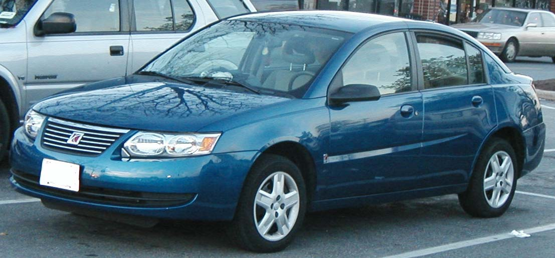 2005 Saturn Ion sedan photographed in USA.